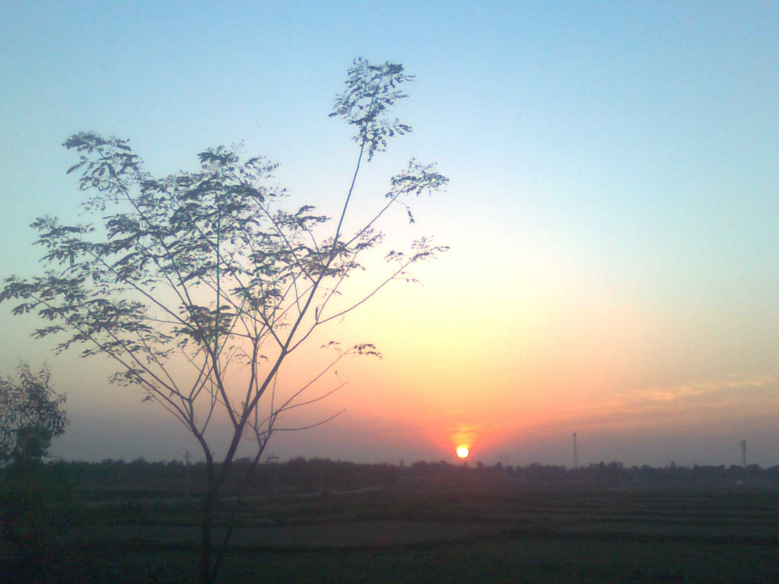 Binuria looks nice in the morning.